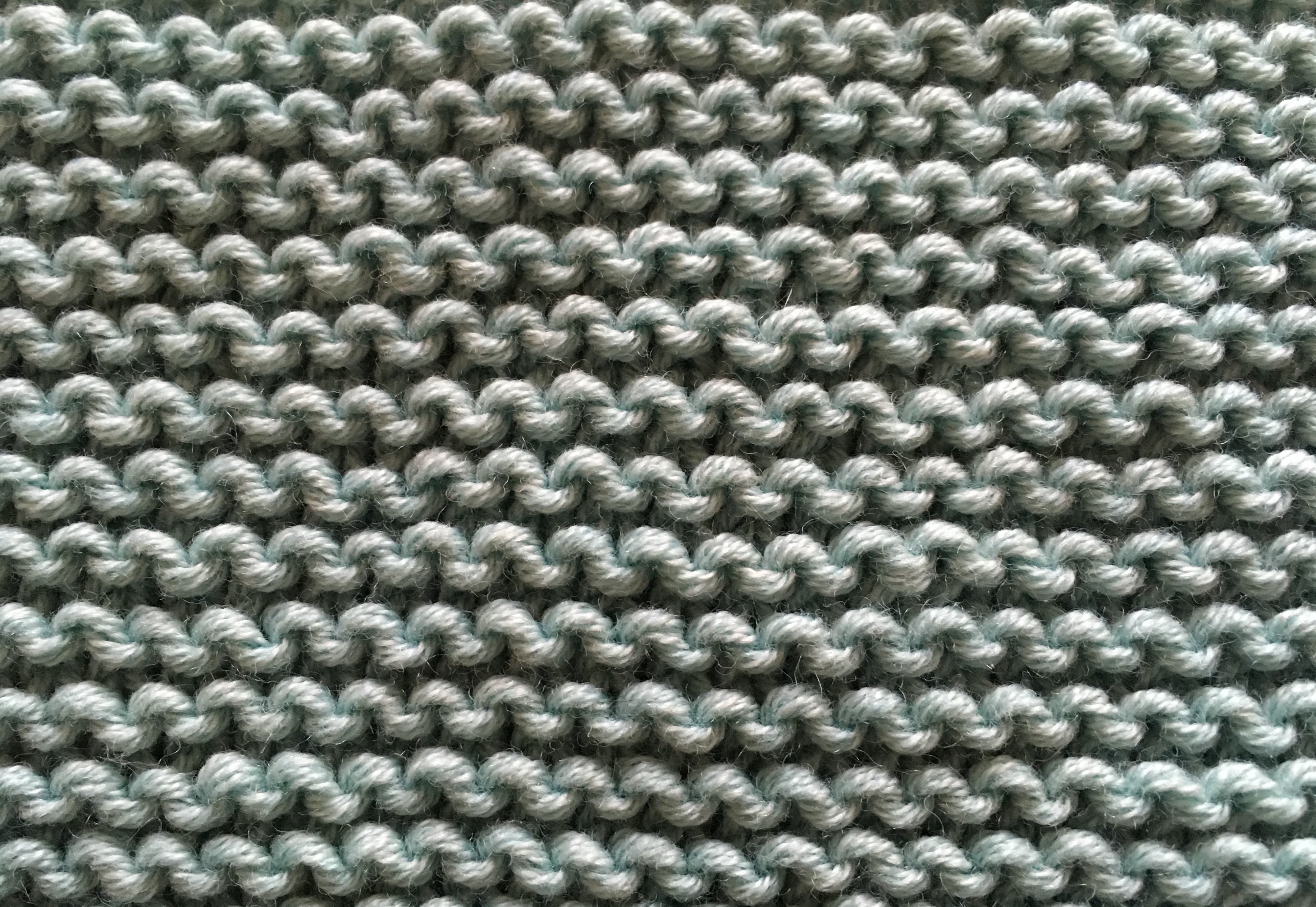 Knitting swatch of garter stitch.